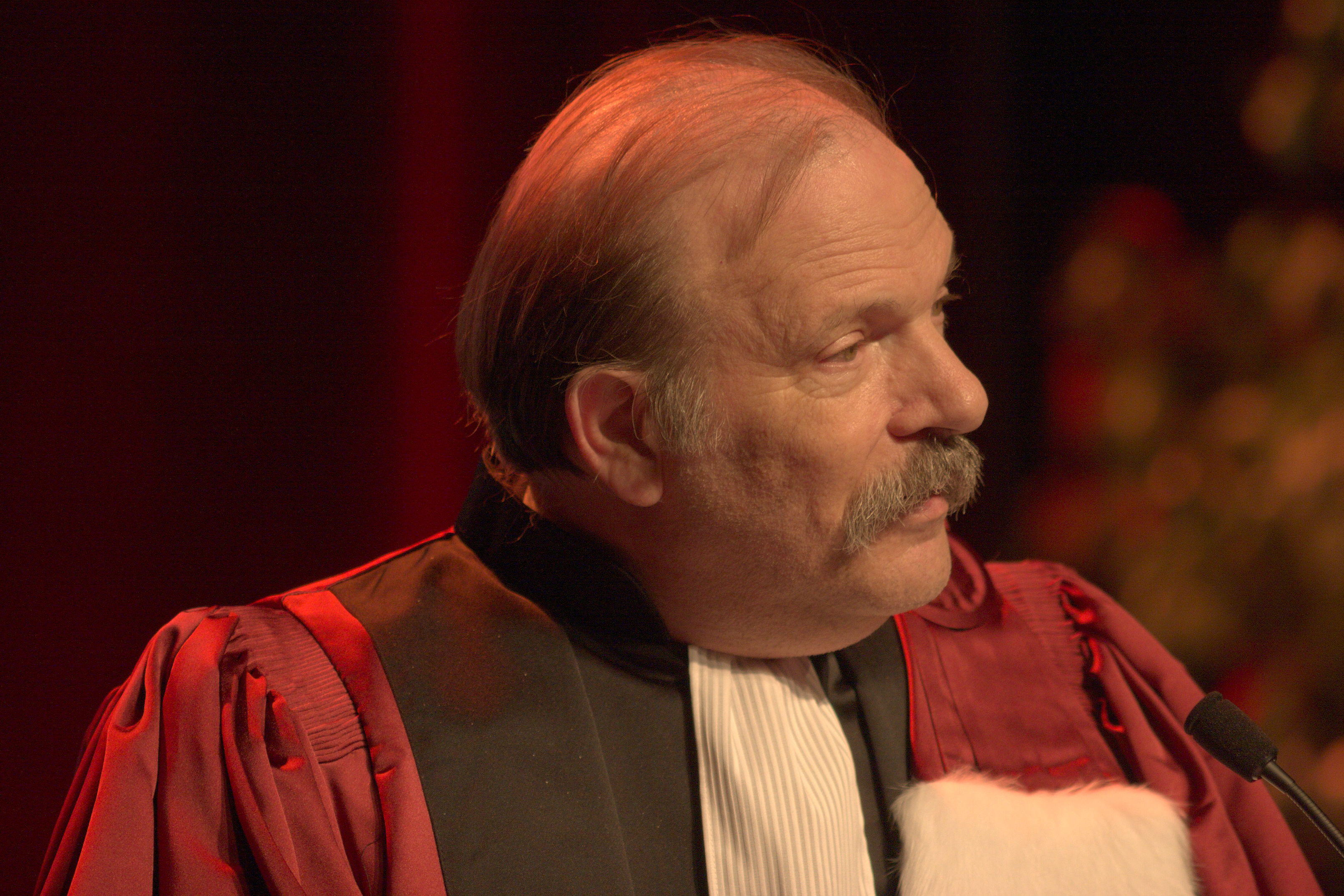 Moshe Vardi giving his acceptance speech for his honorary doctorate from Université Grenoble Alpes (in the Amphidice theater). He wears the amaranth robes of professor of science, according to French academic ceremonial, with the epitoge that has been piined to him during the ceremony.